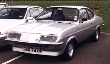 Firenza Droopsnoot (author's own pic)